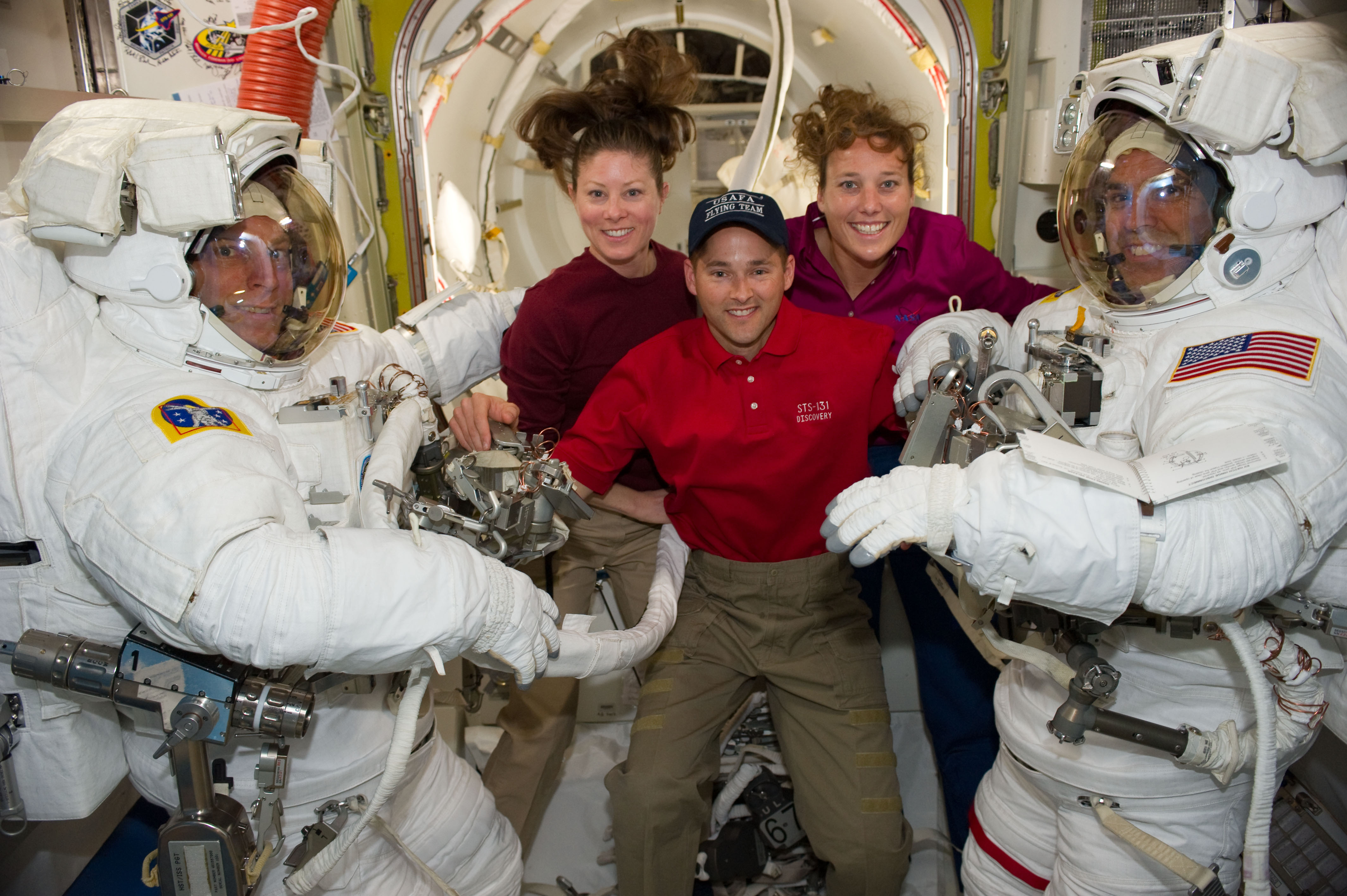 NASA astronauts Clayton Anderson (left) and Rick Mastracchio, both STS-131 mission specialists, attired in their Extravehicular Mobility Unit (EMU) spacesuits; along with astronauts Tracy Caldwell Dyson (center left), Expedition 23 flight engineer; James P. Dutton Jr., STS-131 pilot; and Dorothy Metcalf-Lindenburger, mission specialist, pose for a photo in the Quest airlock of the International Space Station prior to the start of the mission's second spacewalk.